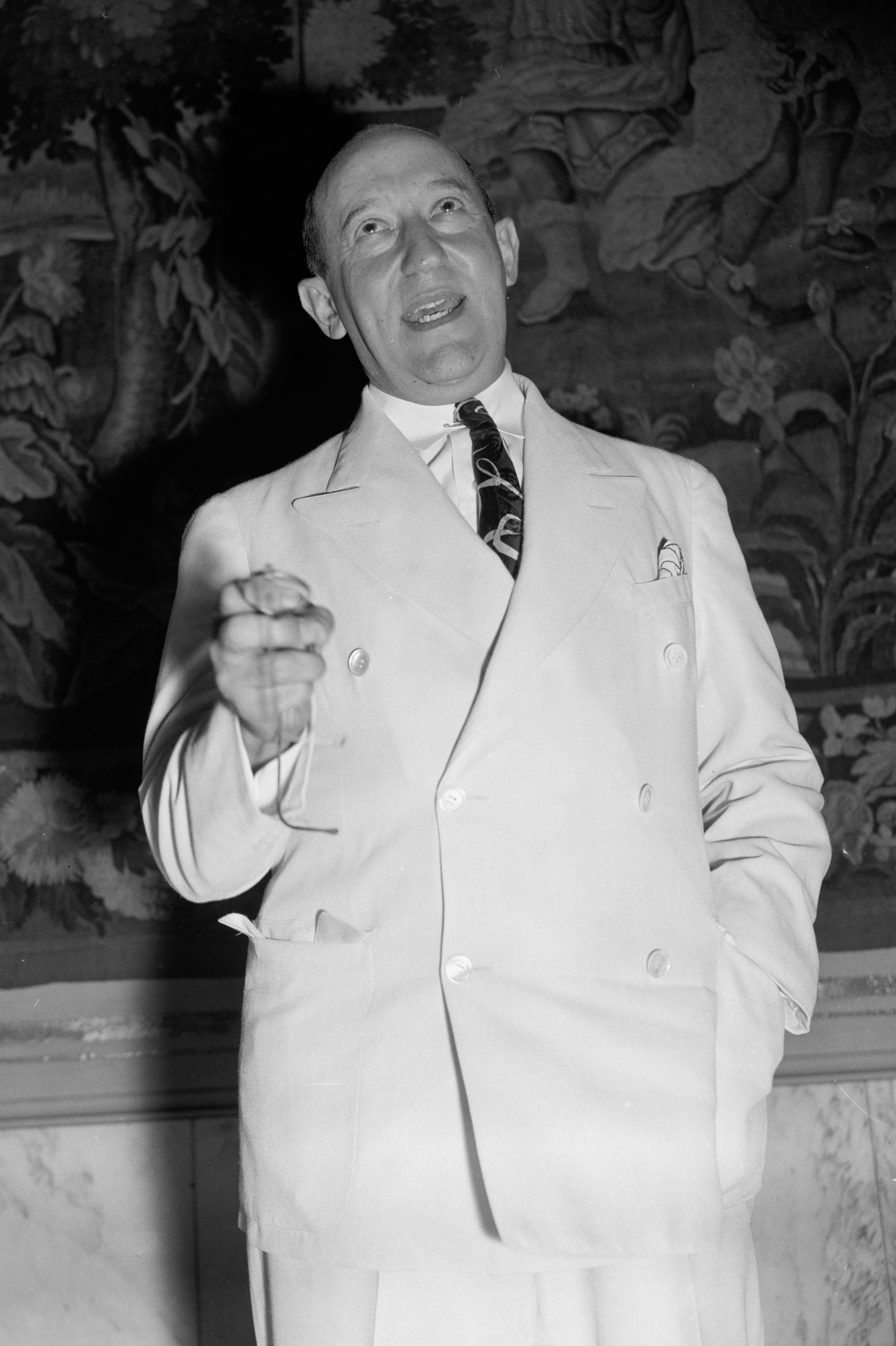 Photo of Dr. Morris Fishbein, longtime editor of the Journal of the American Medical Association; cropped by uploader.